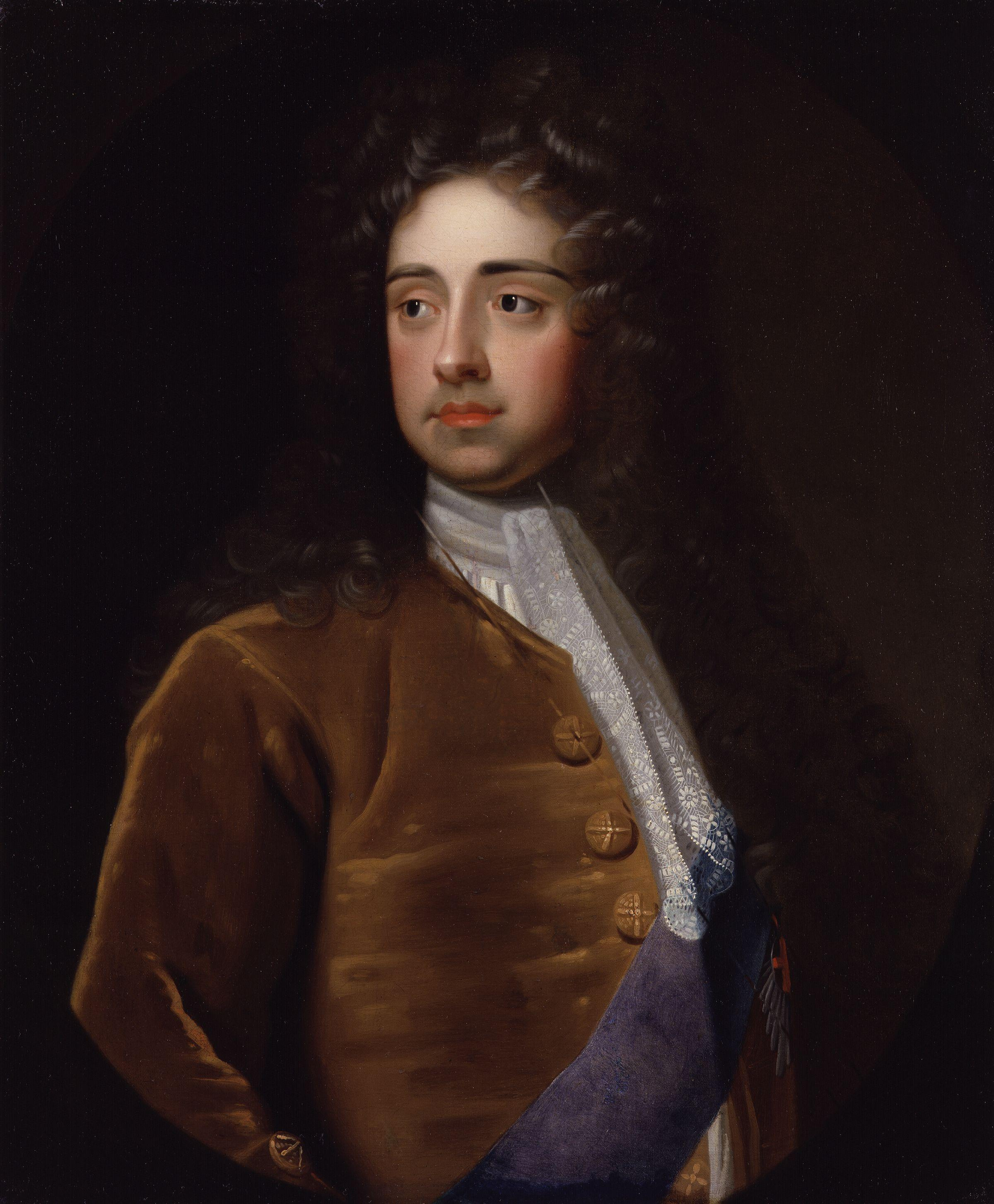 Charles Talbot, 1st Duke of Shrewsbury, by Sir Godfrey Kneller, Bt (died 1723). All images in this batch have been confirmed as author died before 1939 according to the official death date listed by the NPG.